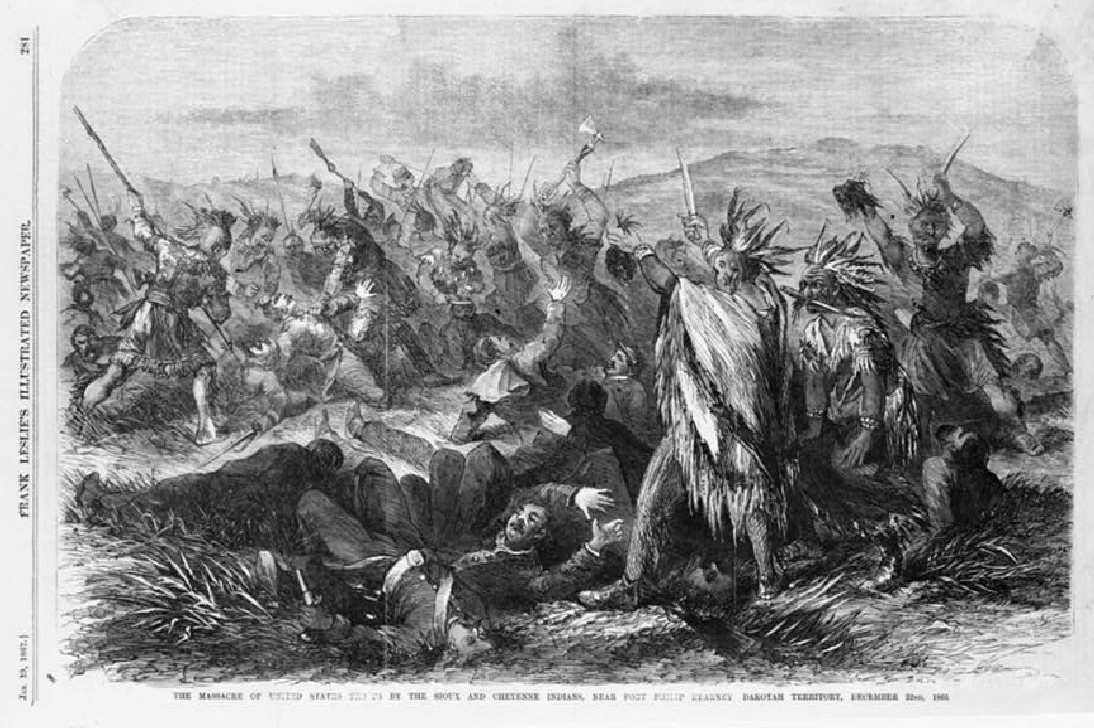 The Massacre of United States troops by the Sioux and Cheyenne Indians, near Fort Philip Kearney, Dakota Territory, December 22nd, 1866.